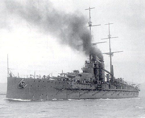 Battleship SMS Viribus Unitis of the Austro-Hungarian Navy